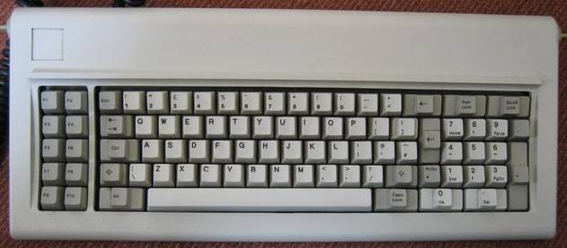 Class Keyboard